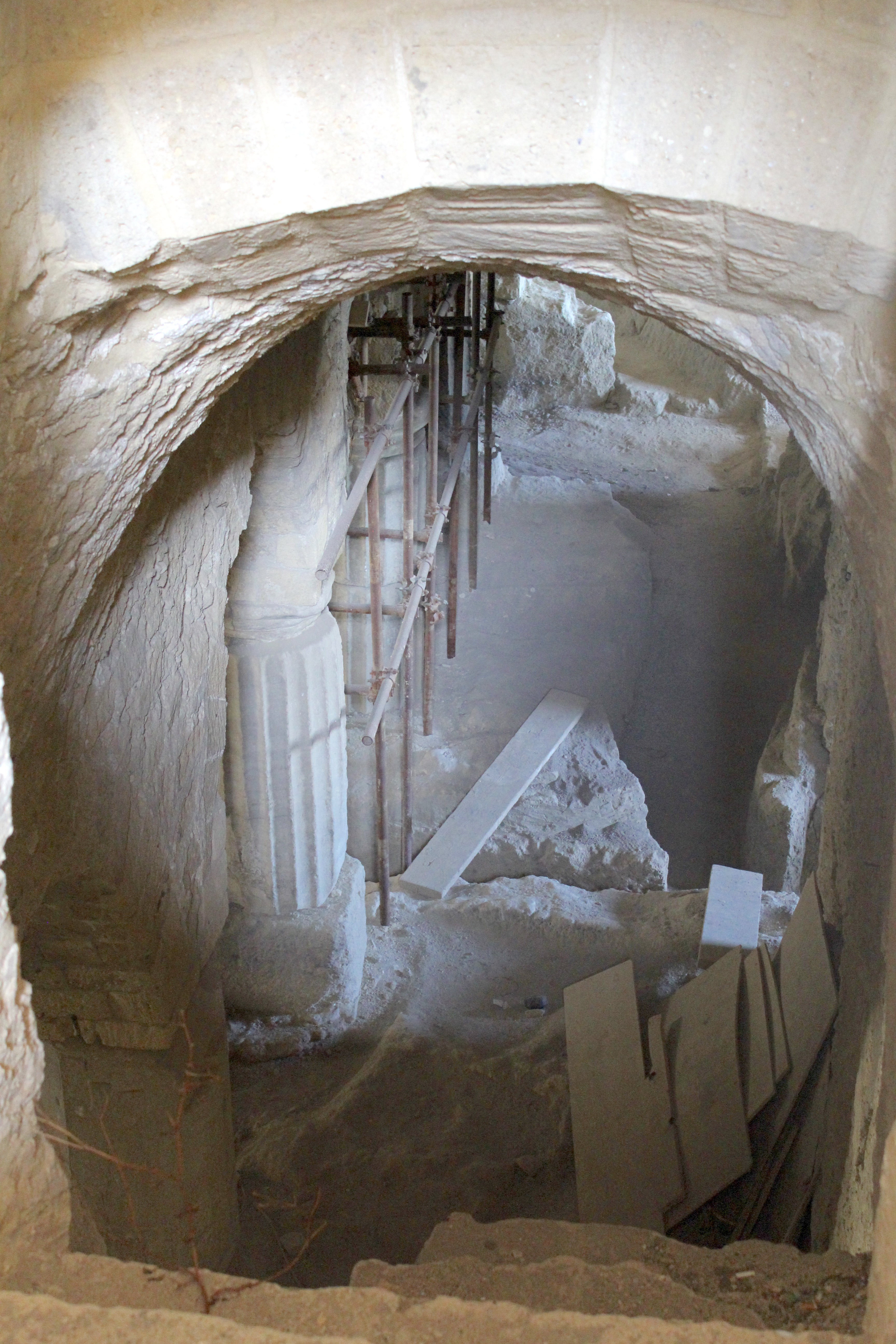 Castel dell'Ovo (22) This file was generated using WMUK's equipment.